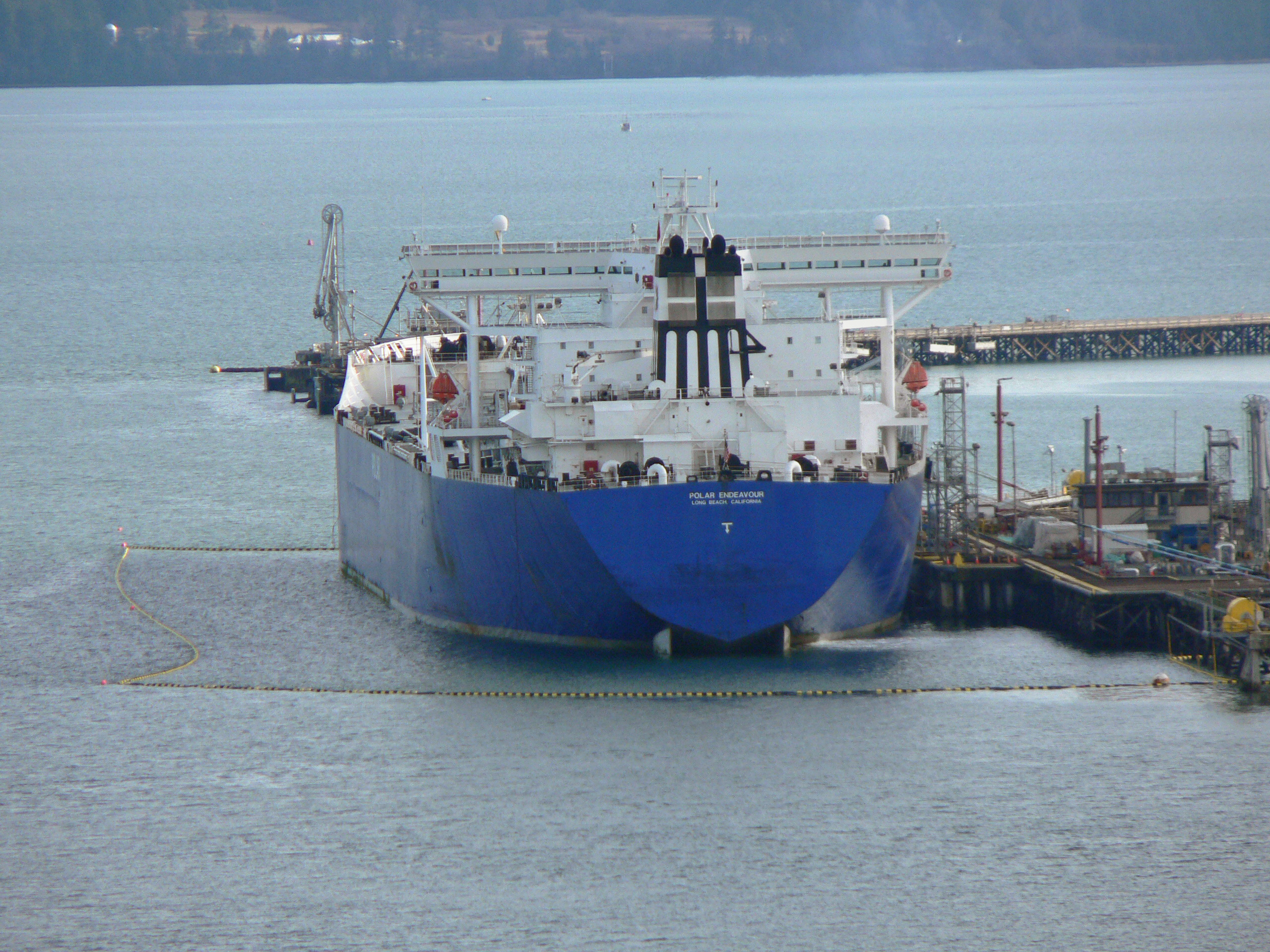 Polar Endeavour docked at Anacortes Refinery, a double-hulled oil tanker, 900 feet long.[1]